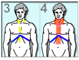 Schematic representation of stage II Hodgkin lymphoma